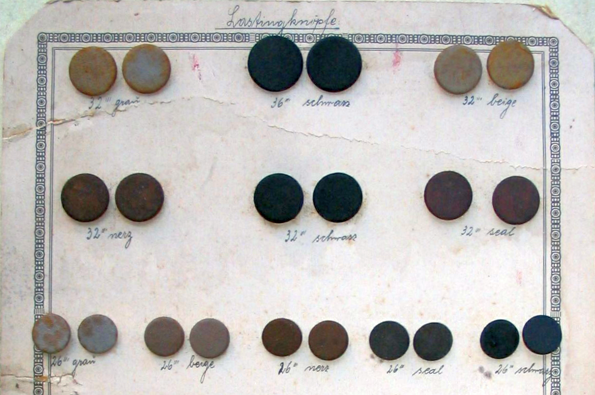 Furrier: "Lasting buttons", from a German furriery.